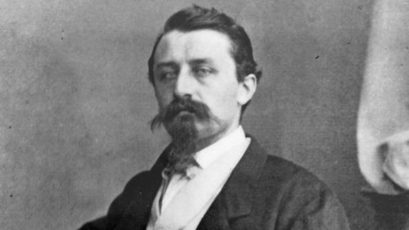 Marcantonio Bentegodi (1818-1873)